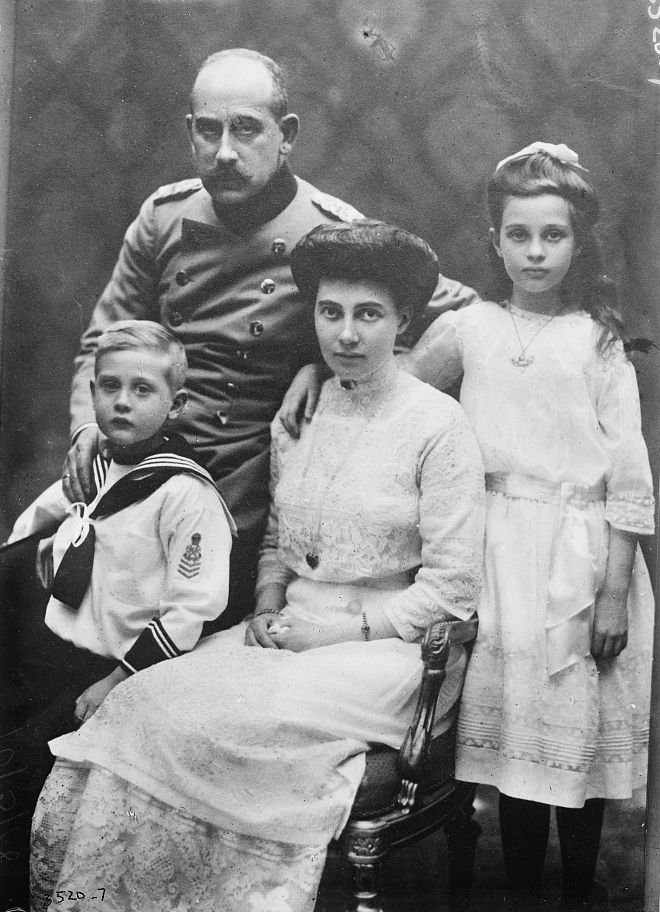 Prince Maximilian of Baden, his wife Princess Marie Louise, daughter Princess Marie Alexandra and son Prince Berthold sometime before World War I.